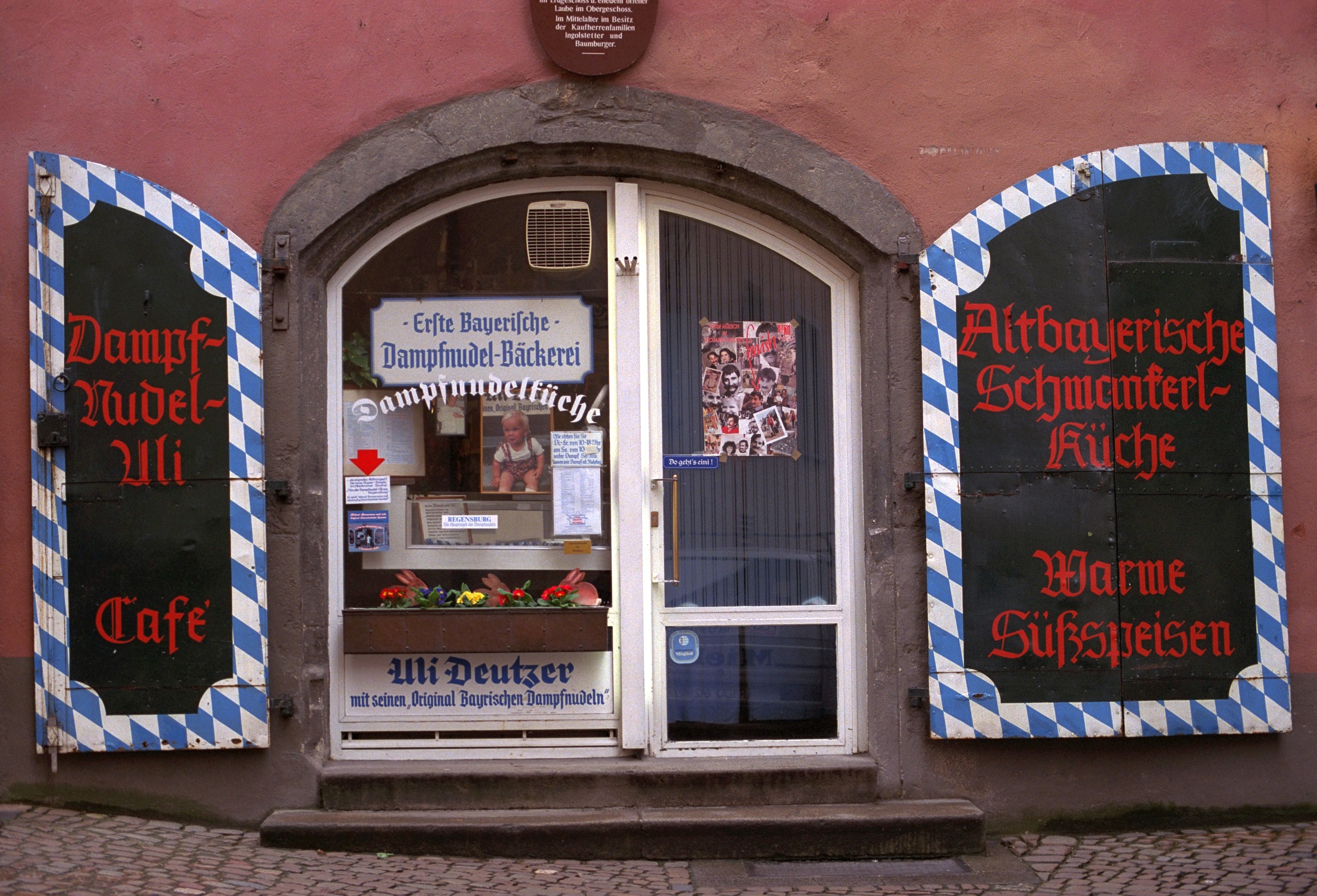 Bakery for Dampfnudeln in the Baumburger Turm in Regensburg, Germany